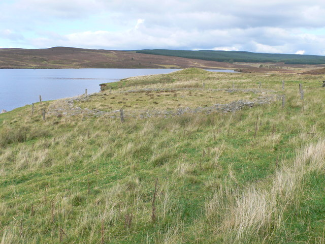 Ring Cairn, east of Llyn Brenig Look carefully and you can see a ring cairn consisting of a low stone ring surrounded by a circle of posts. The circle was in use for 400 years or so and probably served as a kind of church, although some burials were placed within it.